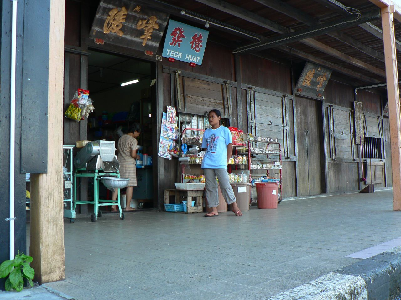 Old shops at Sematan Town, Sarawak